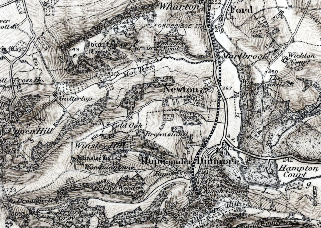 1898 Ordnance Survey map of Newton, Hampton Court, Herefordshire, England in OS Map Sheet 198 - Hereford (Hills). Reproduced with the permission of the National Library of Scotland.[1]